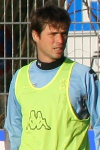 Harald Cerny, player of TSV 1860 München, training, 20.01.2007, Grünwalder Str., Munich